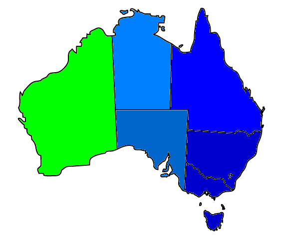 Created by User:Chuq, based on image by User:Martyman ==